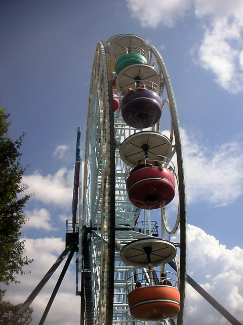 The ferris wheel of Liseberg amusement park in Gothenburg, Sweden.